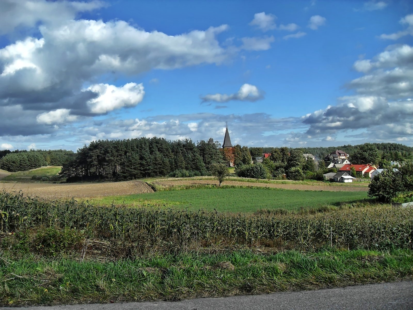 Huta Kalna in Czarna Woda